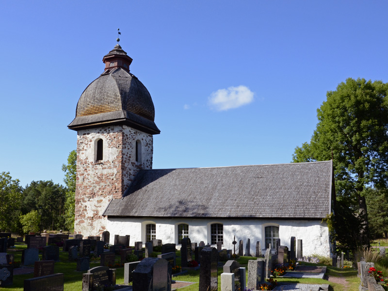 Vårdö Church, Åland, Finland